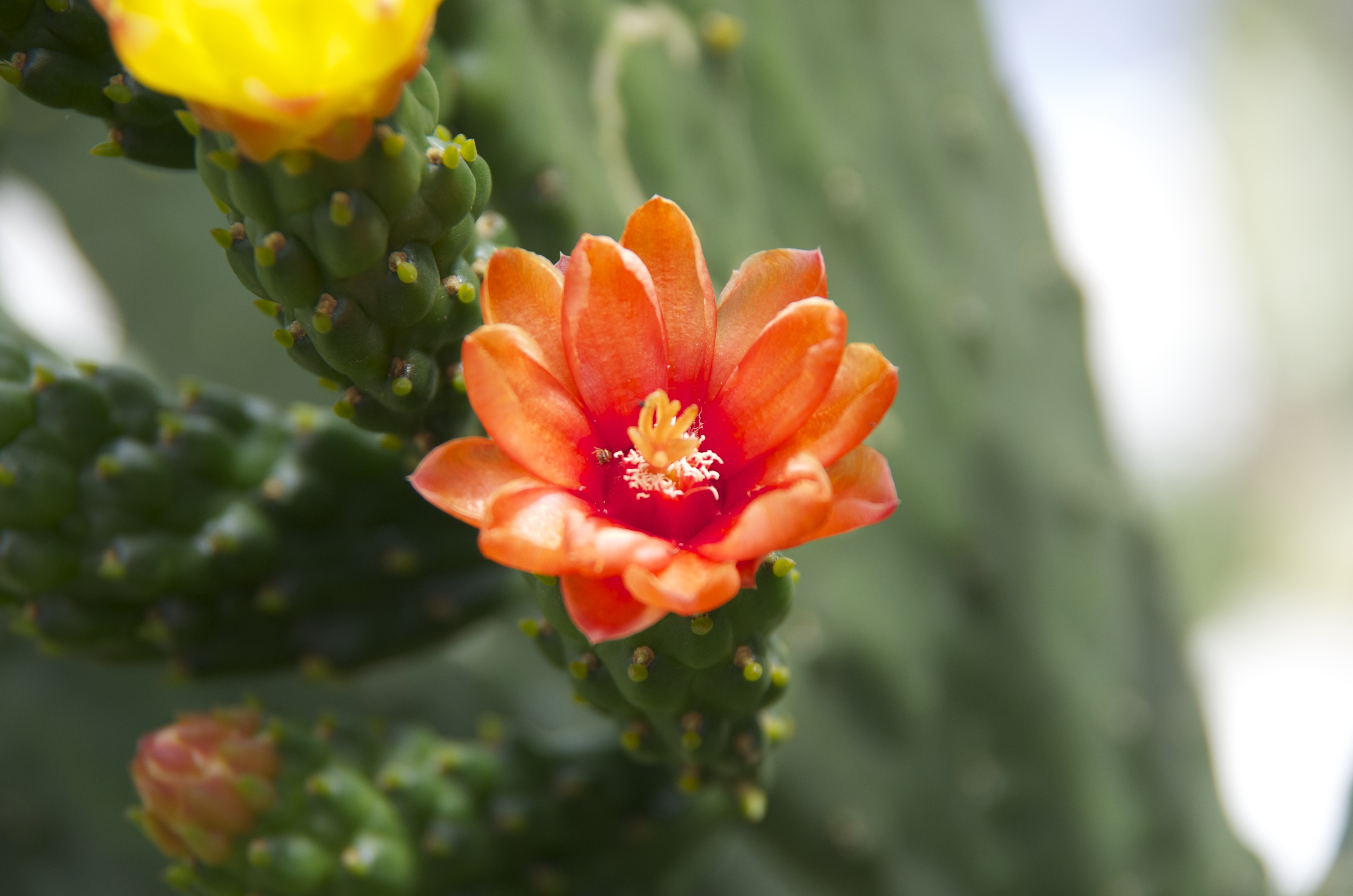 Consolea picardae in Hollywood, Florida USA 2014